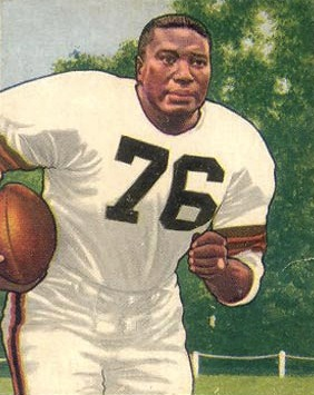 Marion Motley, American football fullback, on a 1950 Bowman football card